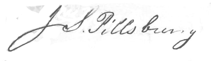 Early signature of John S. Pillsbury from the Franklin House Guest Register from Rutland, VT. He stayed at the Franklin House on his trip west in January, 1855. The register is in the collection of H. Blair Howell.